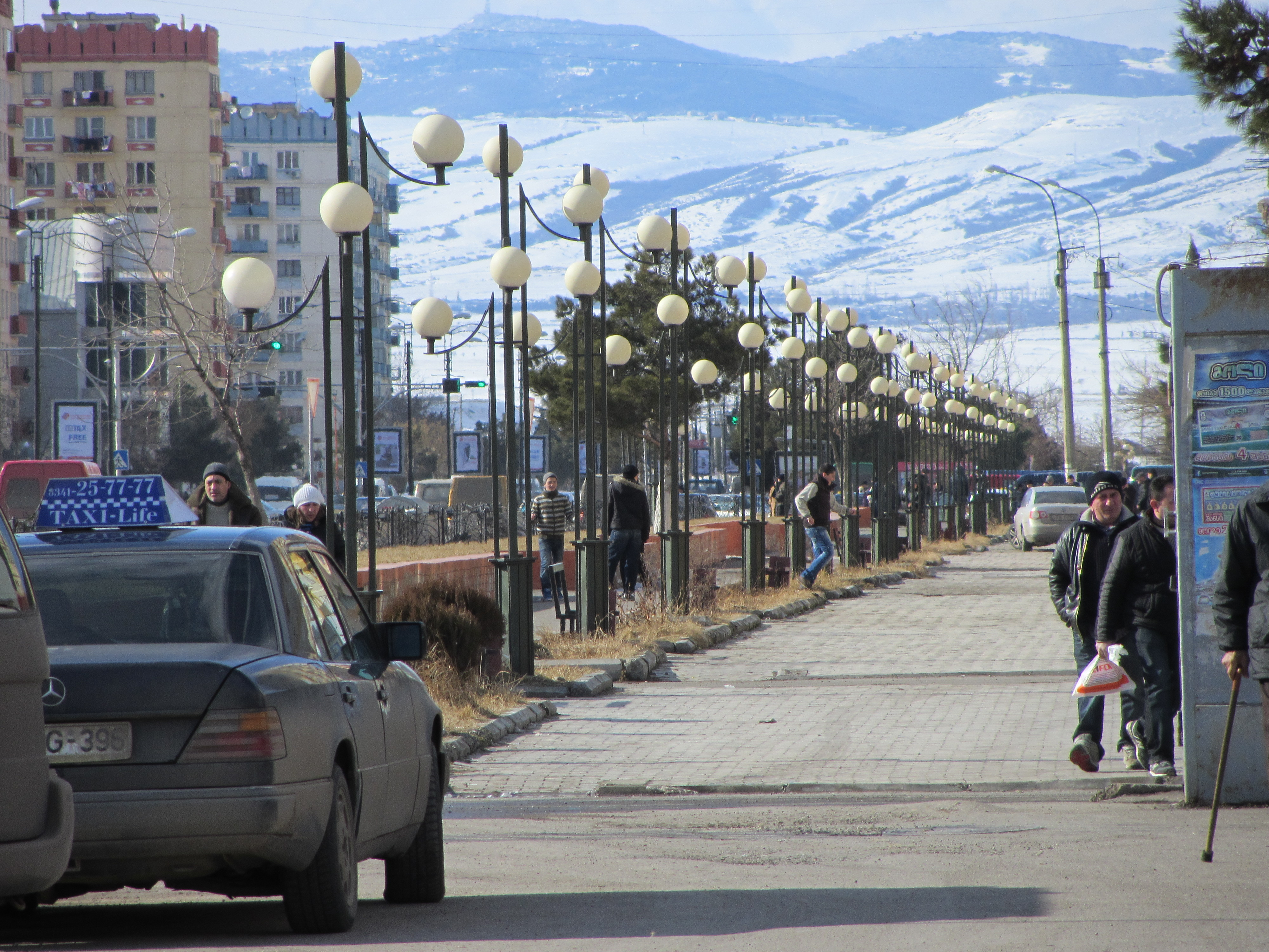 ქალაქის ხედი. ჟიული შარტავას სახელობის გამზირი.